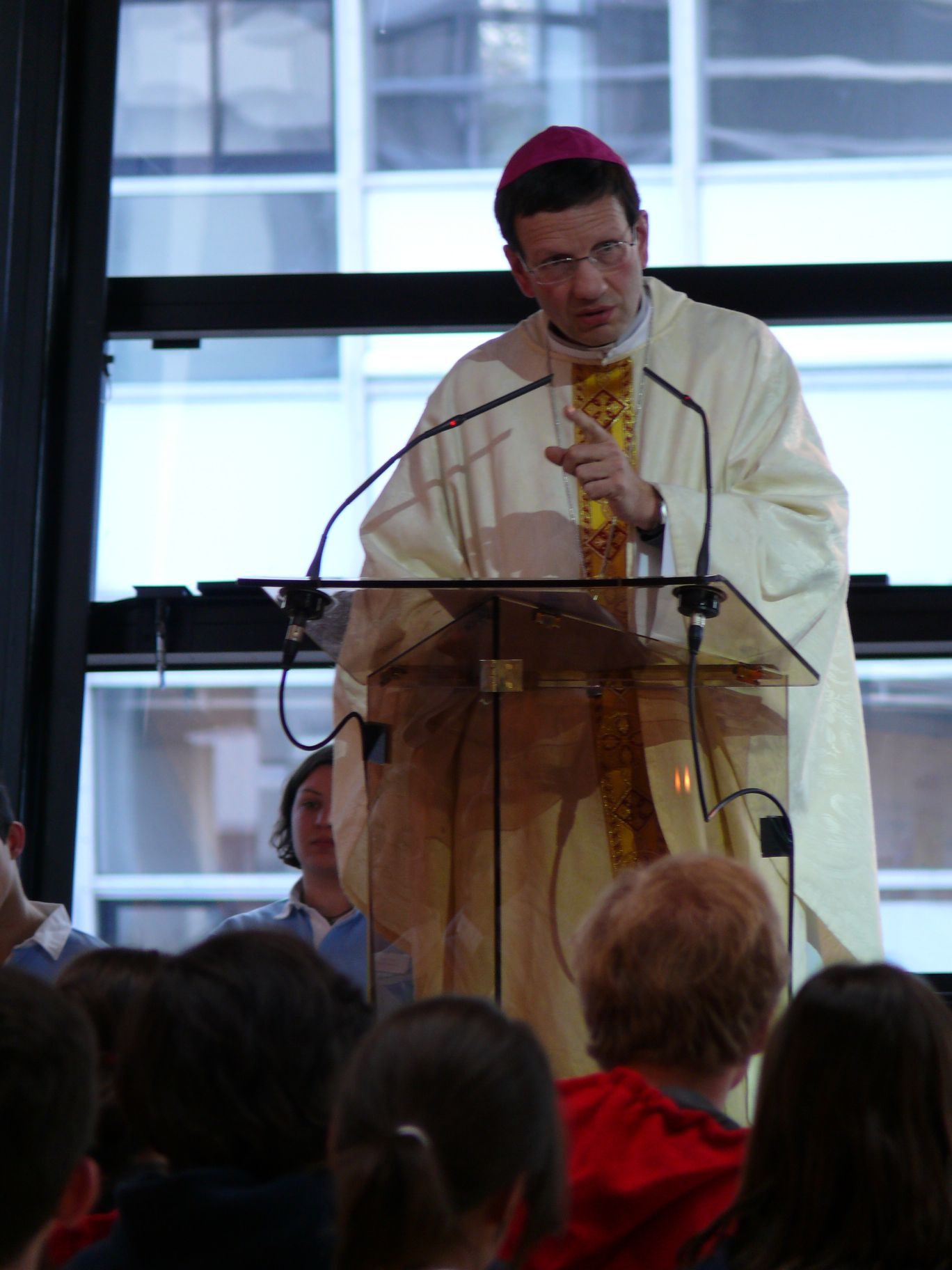 Benoît Rivière, bishop of Autun (Saône-et-Loire, France), at the National Meeting of Chrétiens en Grande École (Christians in High School) in Pontoise (Val-d'Oise, France) in February 2009.